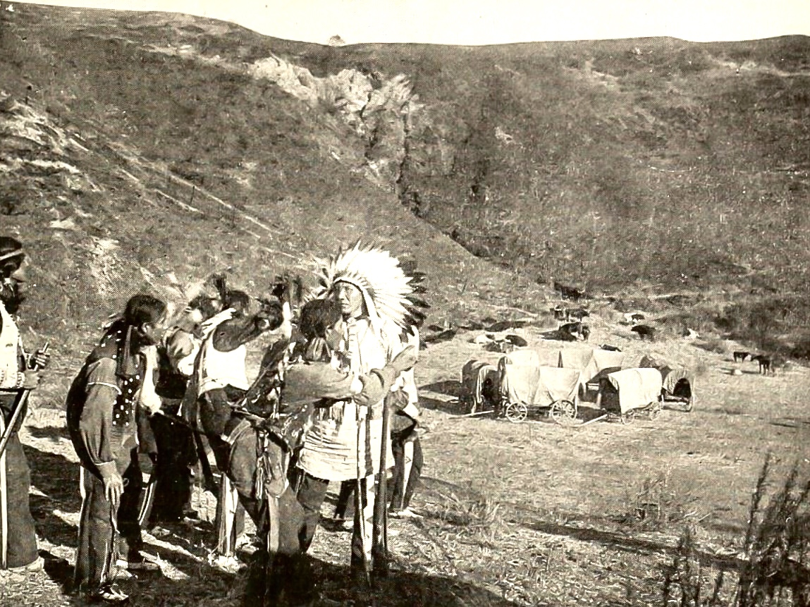 Film still from the 1912 Bison productionWar on the Plains; an "Old West" scene showing a group of Native Americans on a hill looking down at six covered wagons arranged in a defensive circle; image published in trade weekly Moving Picture News, January 20, 1912, p. 23; caption in cited publication reads "SCENE FROM 'WAR ON THE PLAINS' / Bison release"